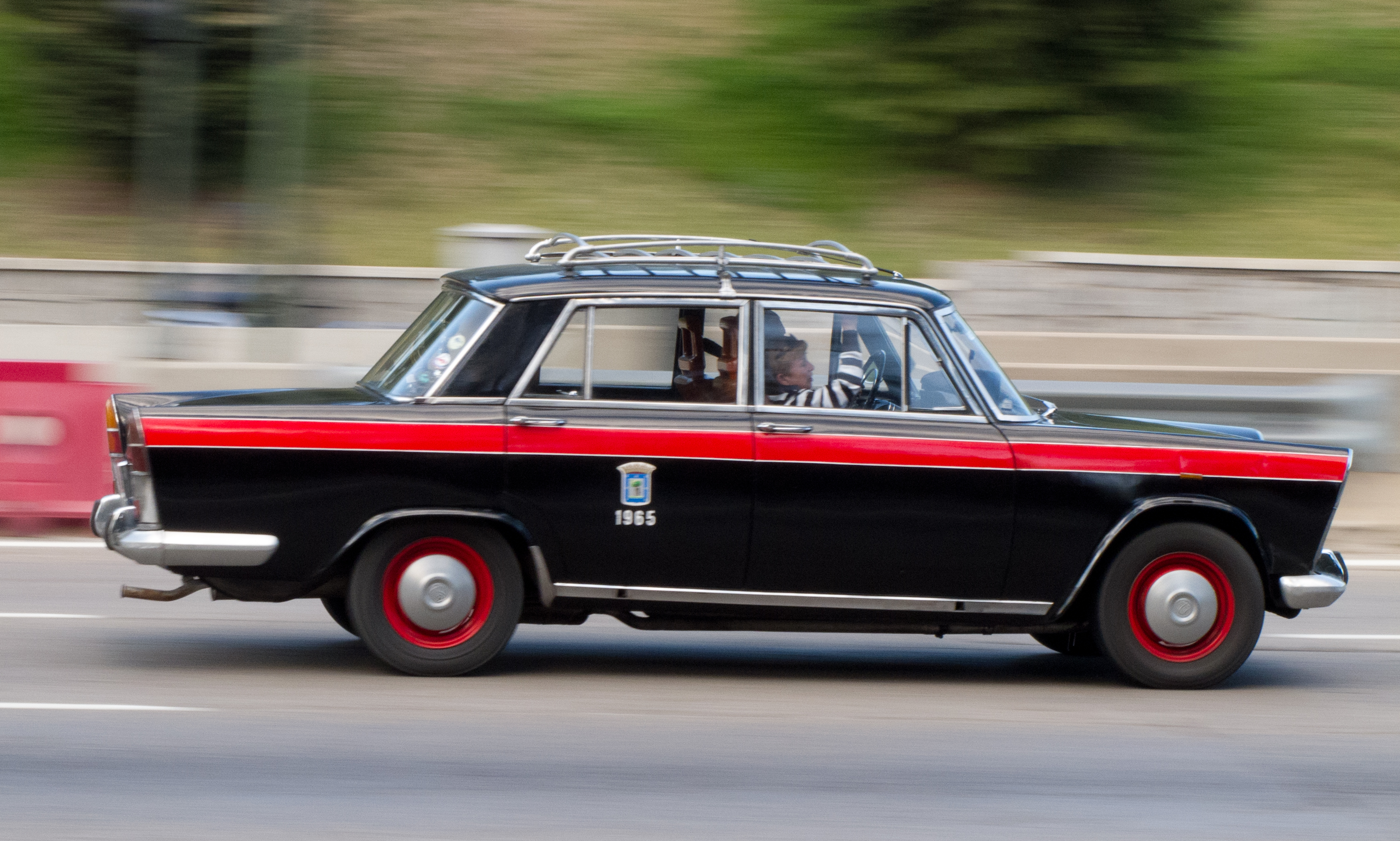 Panning to an old taxi of Madrid, model SEAT 1500.